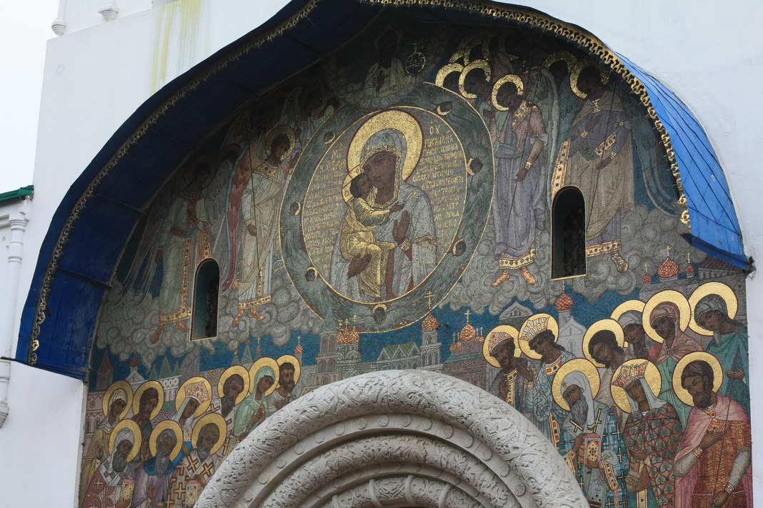 Feodorovsky Cathedral in Tsarskoye Selo. Main entrance mosaic